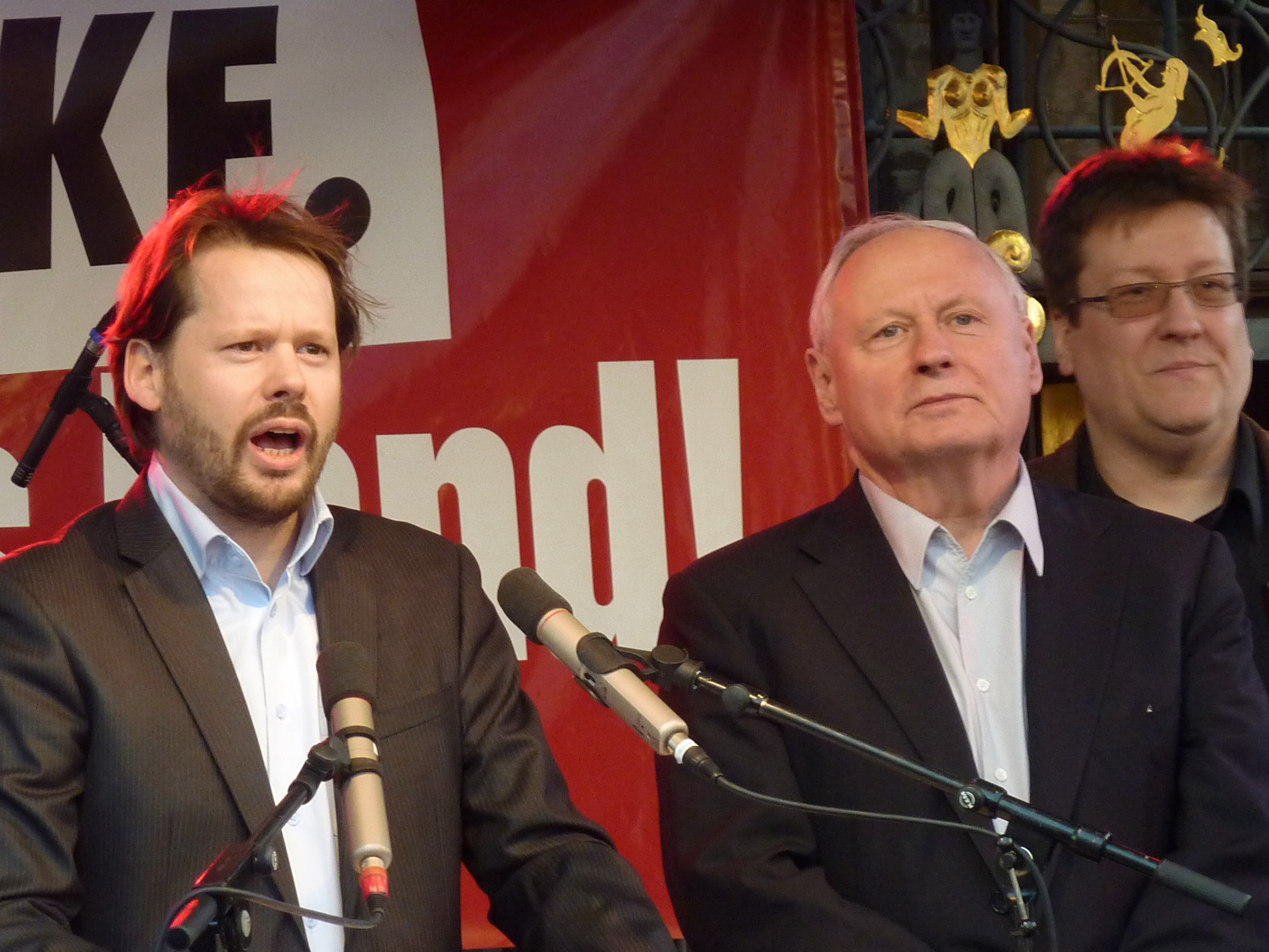 François Delapierre speaking at an election campaign rally organized by the party Die Linke at the Rathausplatz, Freiburg, Germany, on March 21, 2011. To his left is Oskar Lafontaine, and to Lafontaine's left is a candidate, the biologist Dr. Armin Wolff.